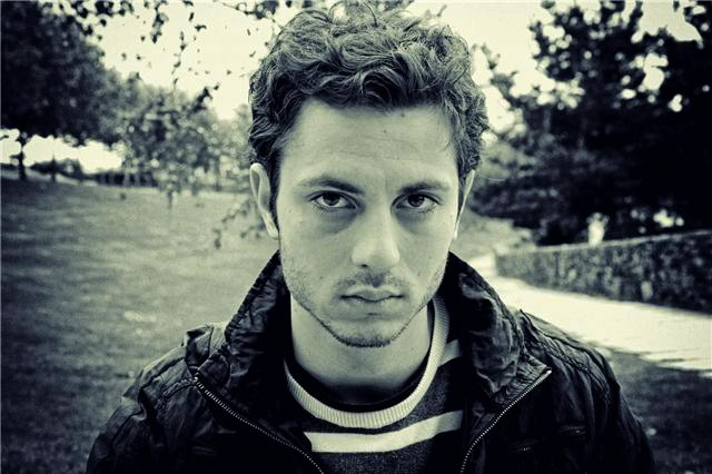 Guillermo Carbajo